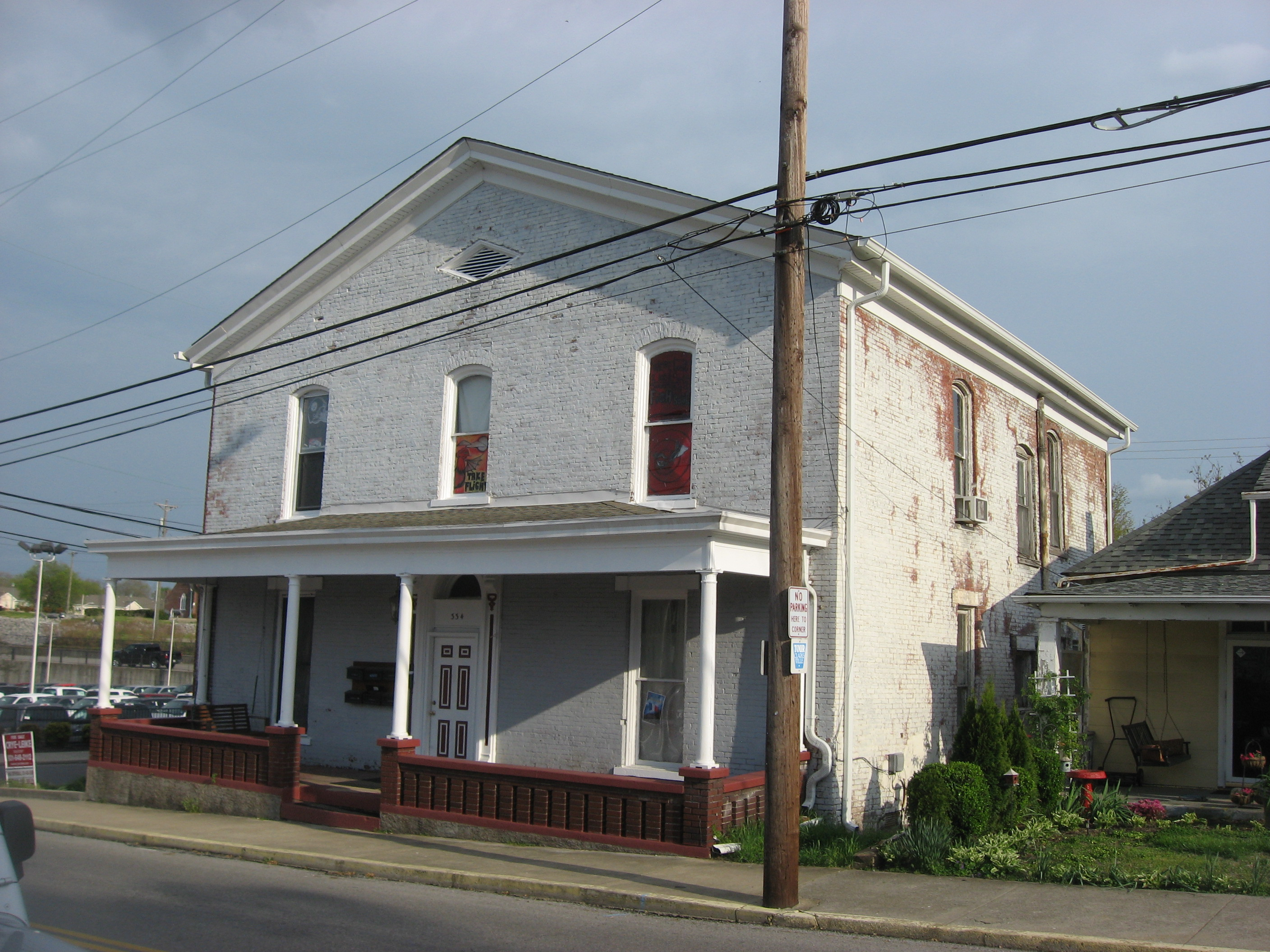 Front and western side of the former Clarksville Methodist Church (now a residence), located at 334 E. Main Street in Clarksville, Tennessee, United States. Built in 1831, it is listed on the National Register of Historic Places.